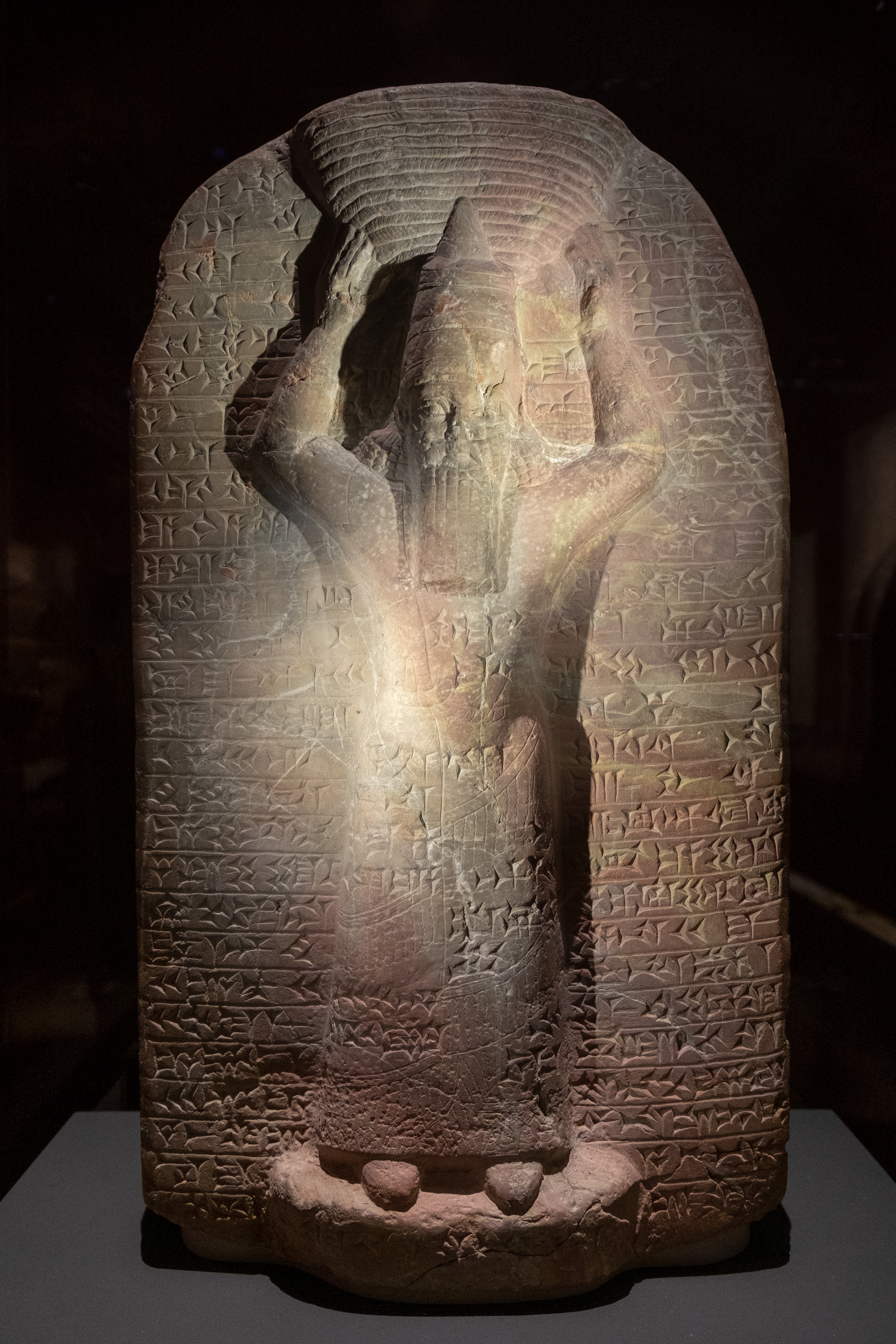 Ashurbanipal as restorer of the shrine of Ea in the Temple of Marduk in Babylon, Babylon, 668-655 BCE British Museum, London